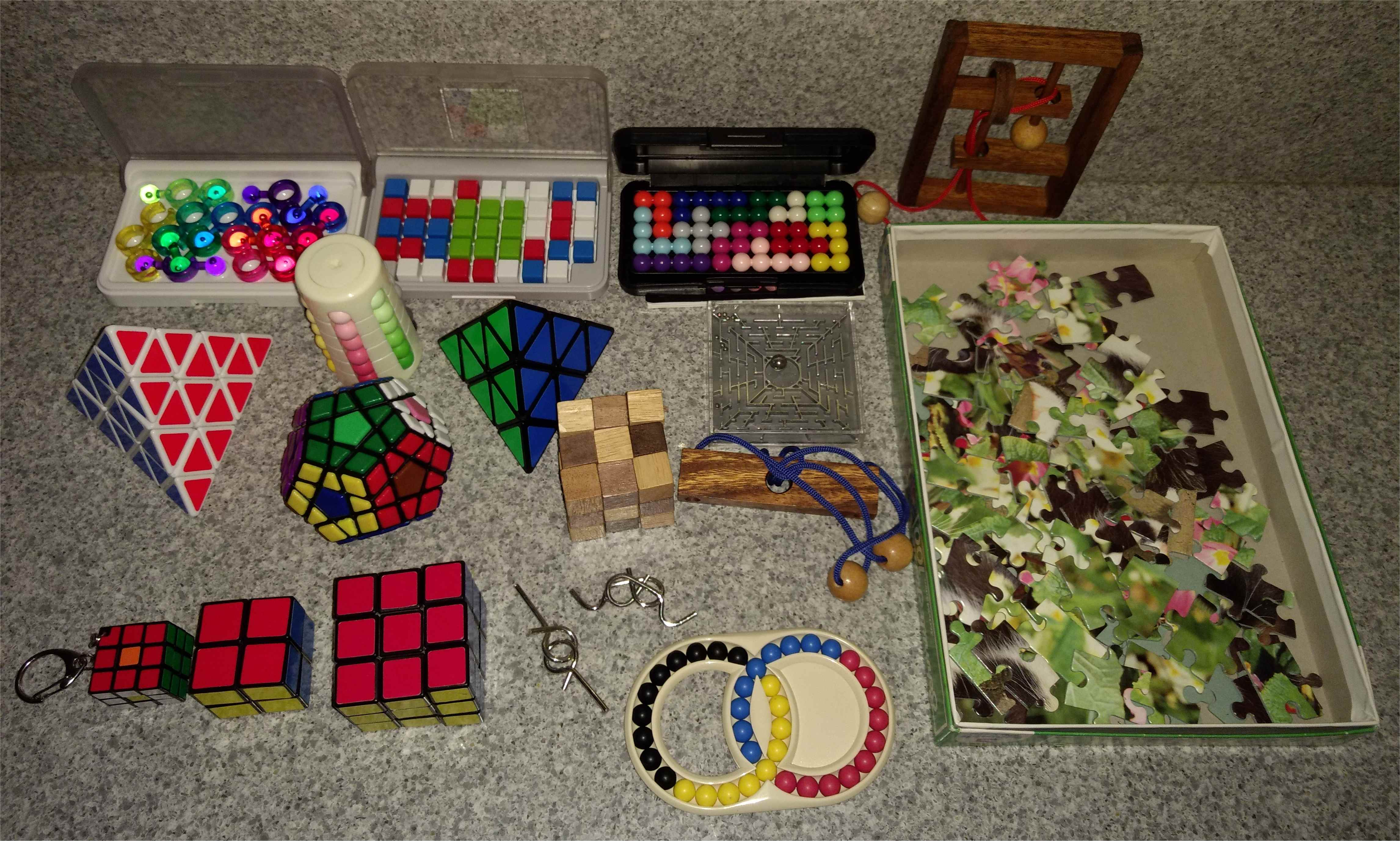 various puzzles : rubik's cube, pyraminx, master pyraminx, Megaminx (dodecahedron), babylon tower, hungarian rings,jigsaw puzzle, snake cube, metallic or wood puzzle, lonpos 101 (rectangle or pyramid), IQ focus, IQ Link...